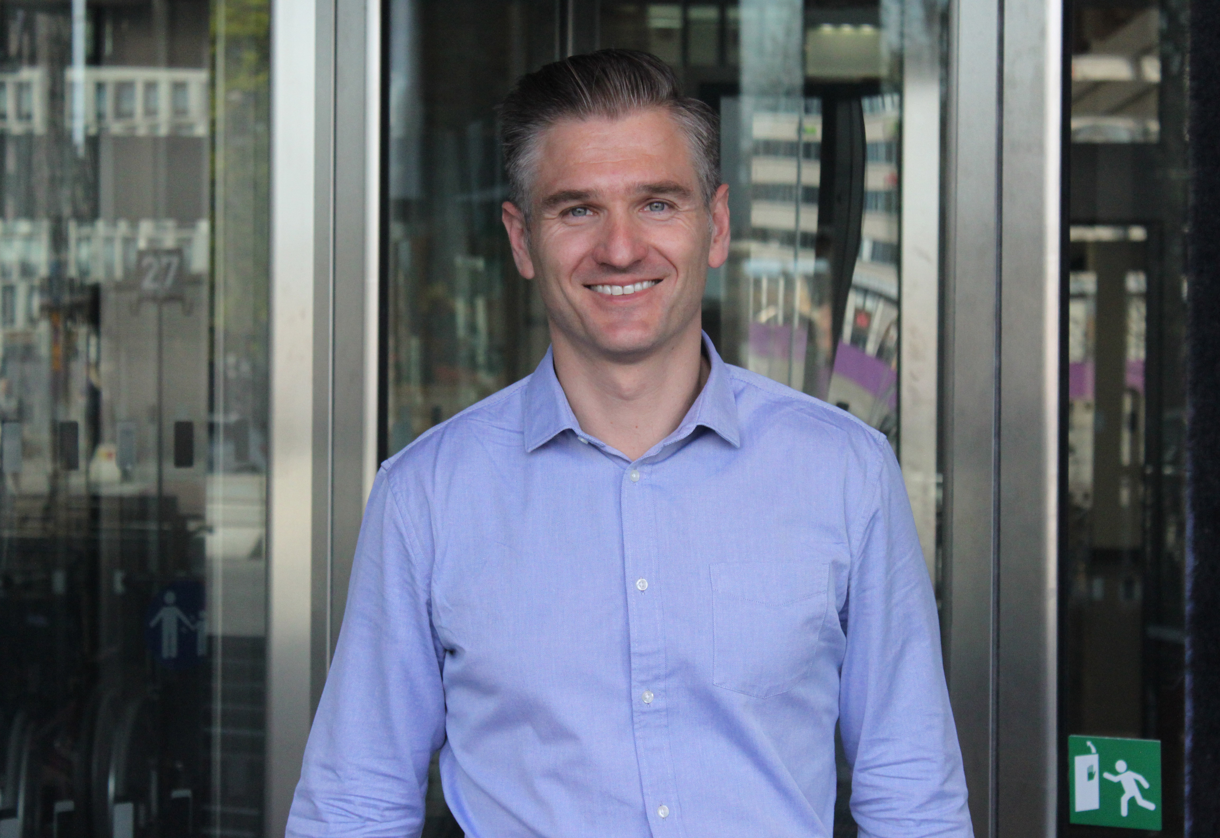 Dr. Christian Guttmann exits the new Karolinska hospital in Stockholm, Sweden. Copyright: Gabriella Kepinski 2018